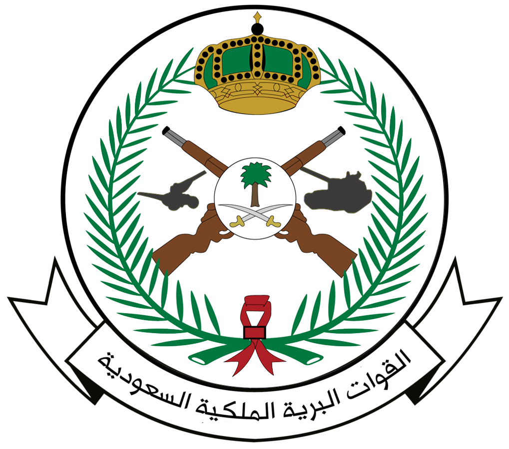 Royal Saudi Land Forces logo.